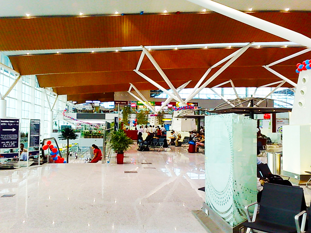 New Delhi Airport Terminal 1D